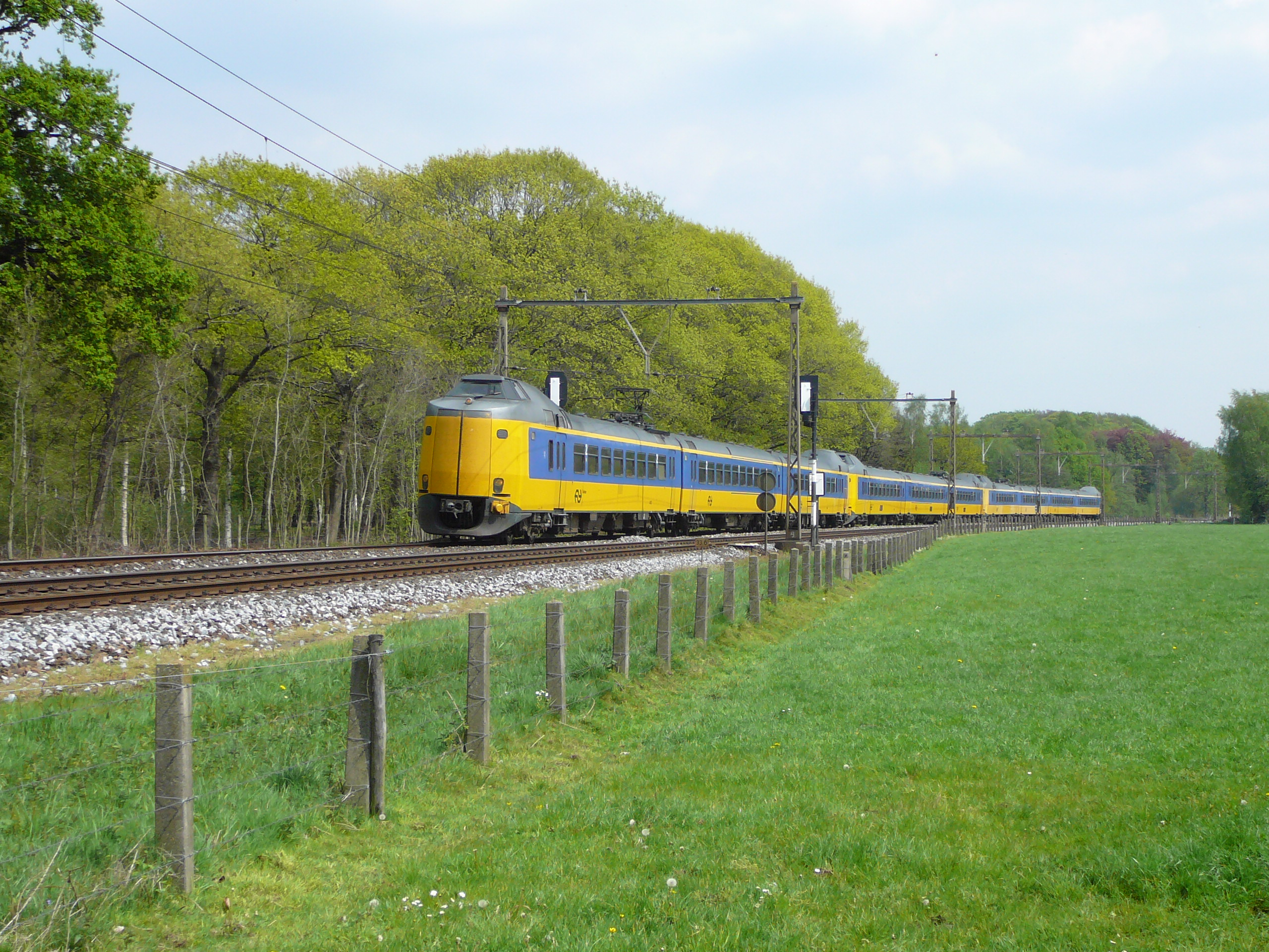 Dutch ICM-class EMU near Nijkerk, the Netherlands.